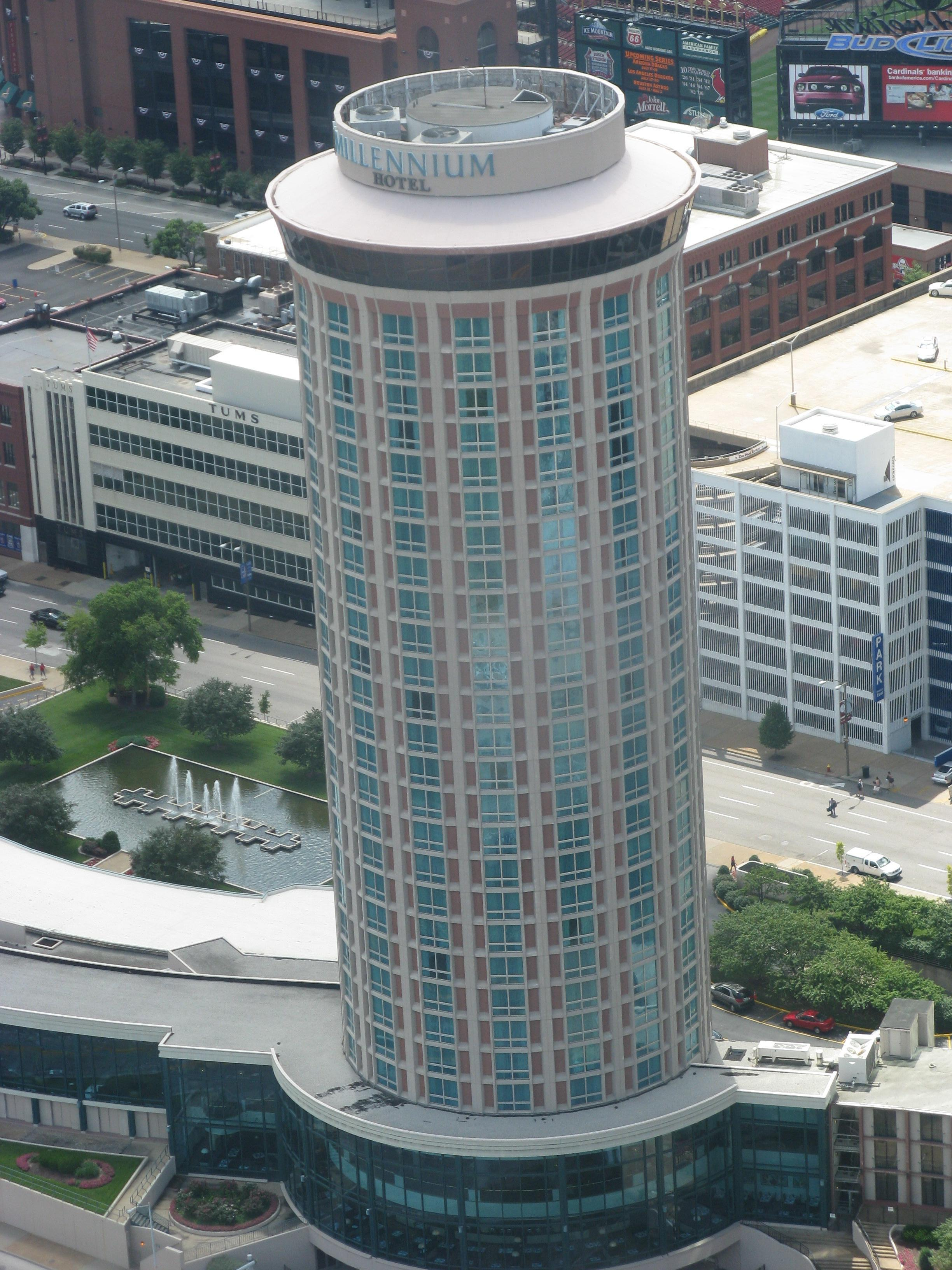 A picture of the Millenium Hotel Tower I from the observation deck of the Gateway Arch